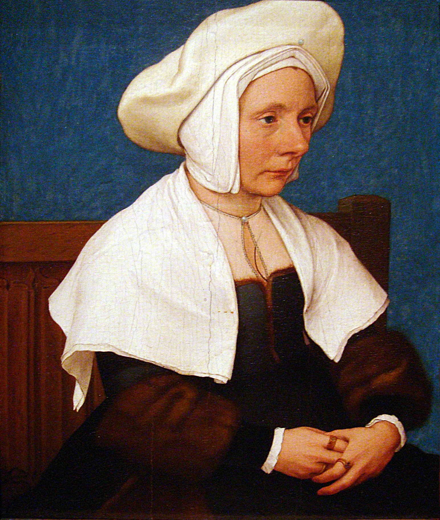 Portrait of a Woman in a White Coif